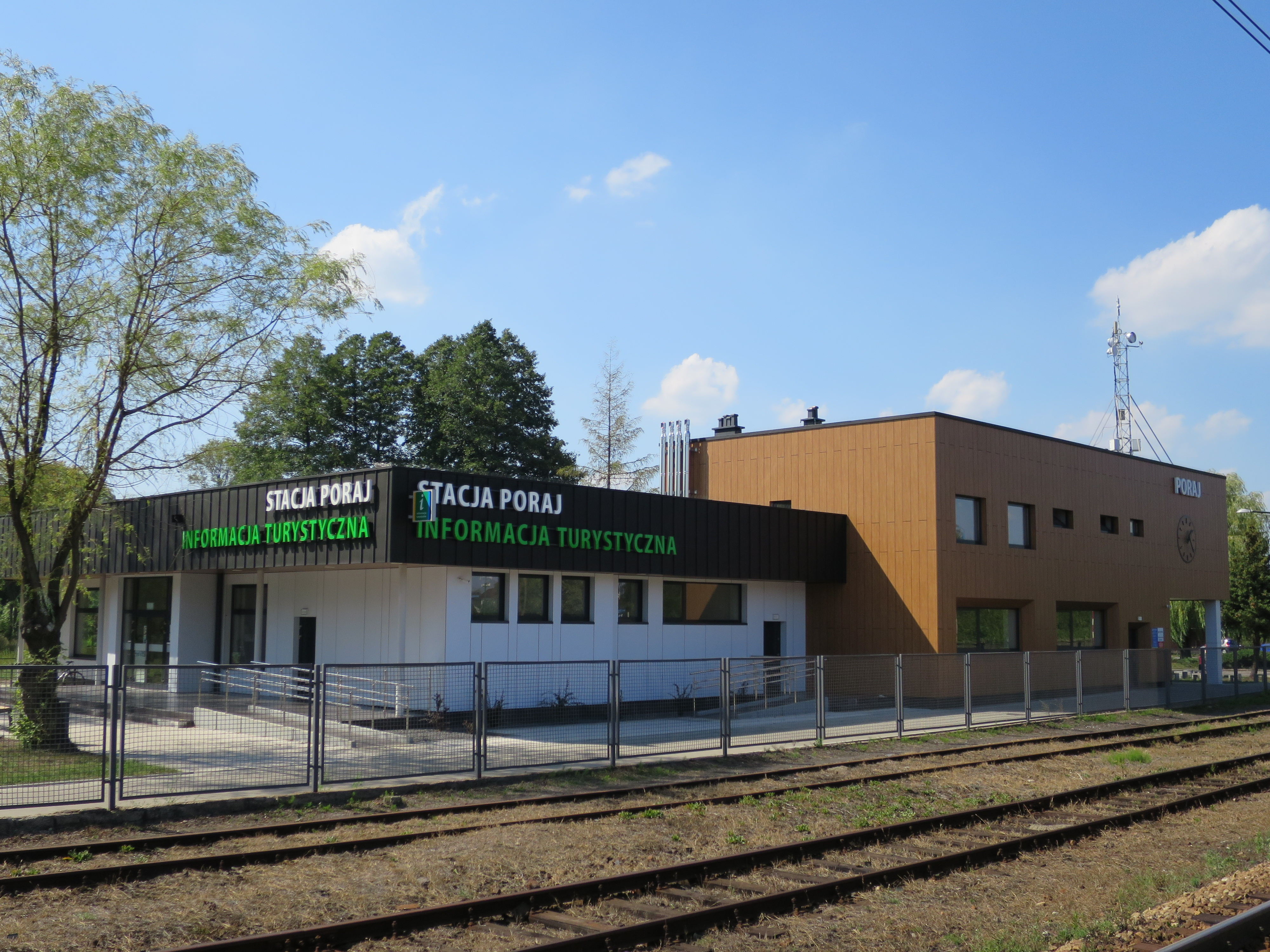 Poraj This photo was taken during Railway Wikiexpedition 2015 set up by Wikimedia Polska Association in cooperation with Fundacja Grupy PKP. You can see all photographs in category Wikiekspedycja kolejowa 2015.